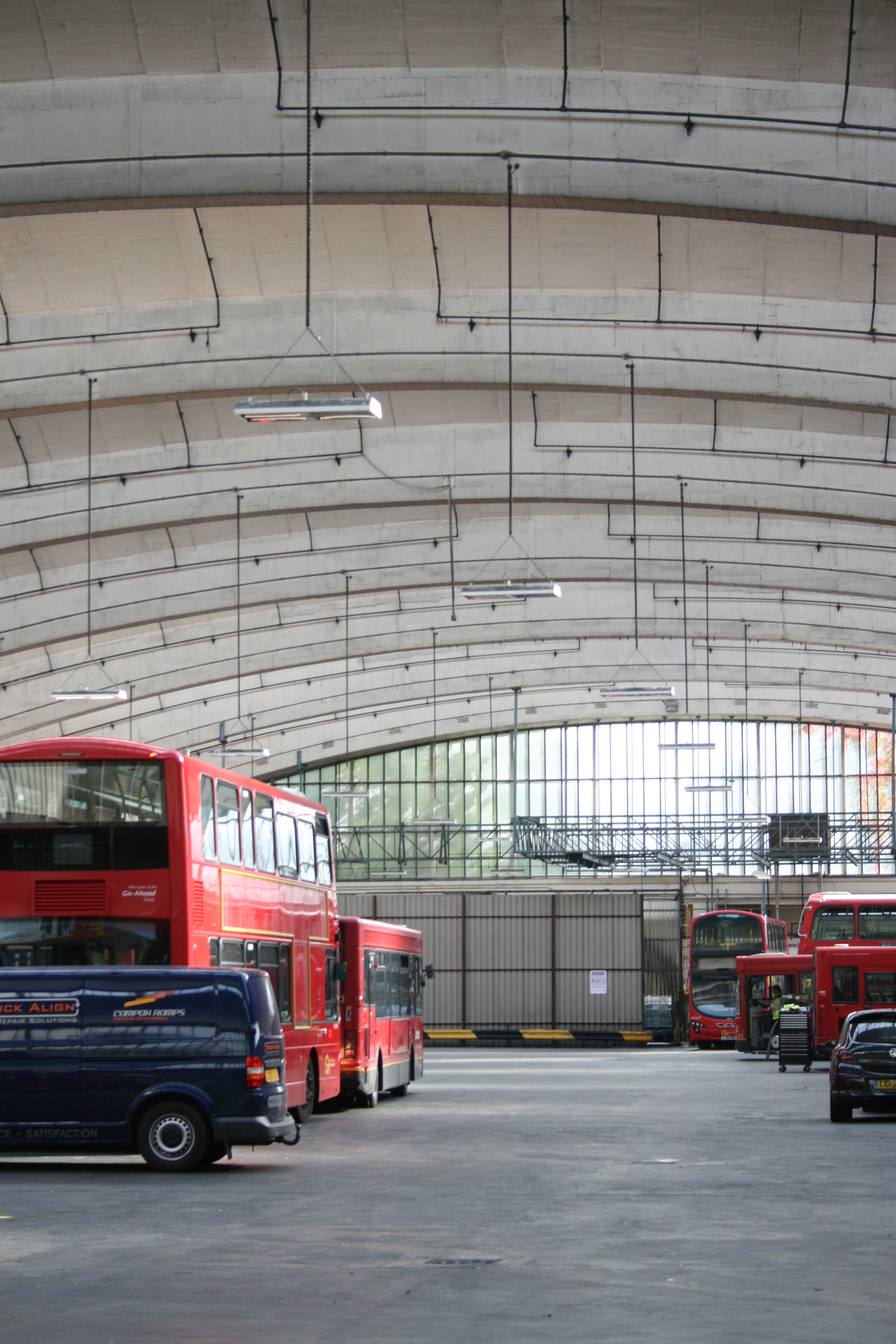 Stockwell Bus Garage